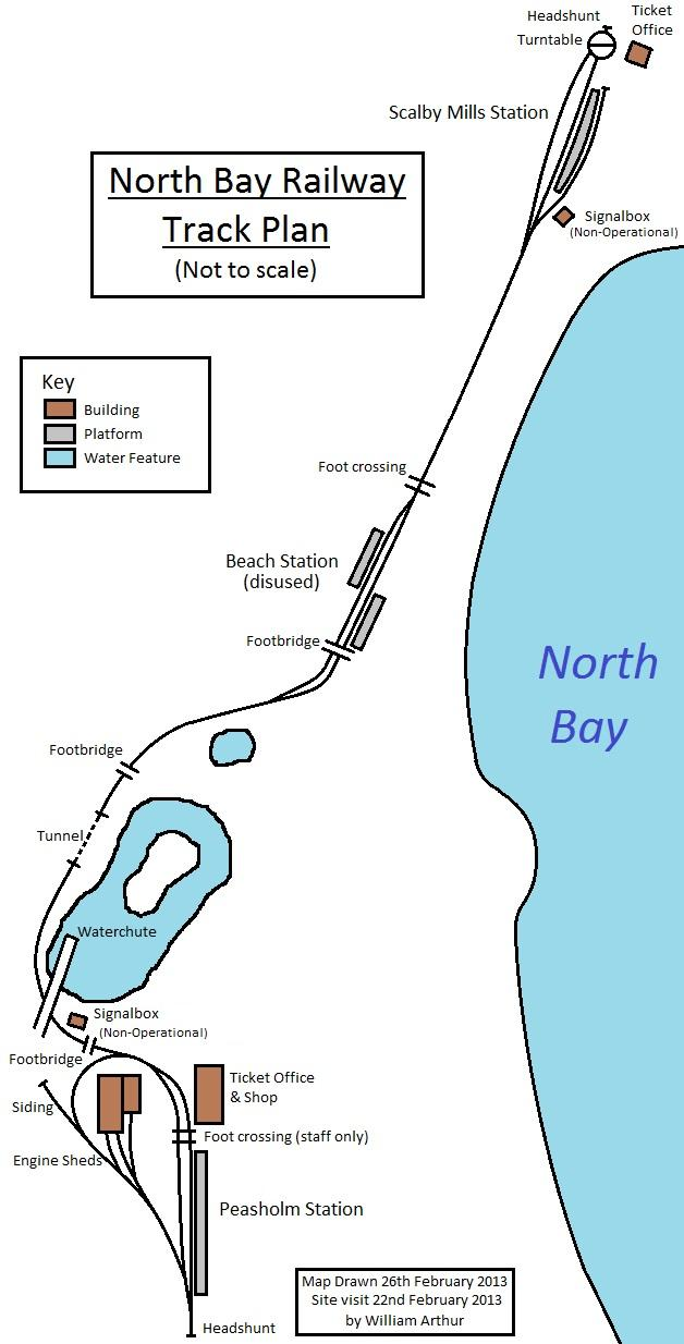 A sketch map (not to scale) of the North Bay Railway, Scarborough, showing the track plan, and buildings associated with the railway.